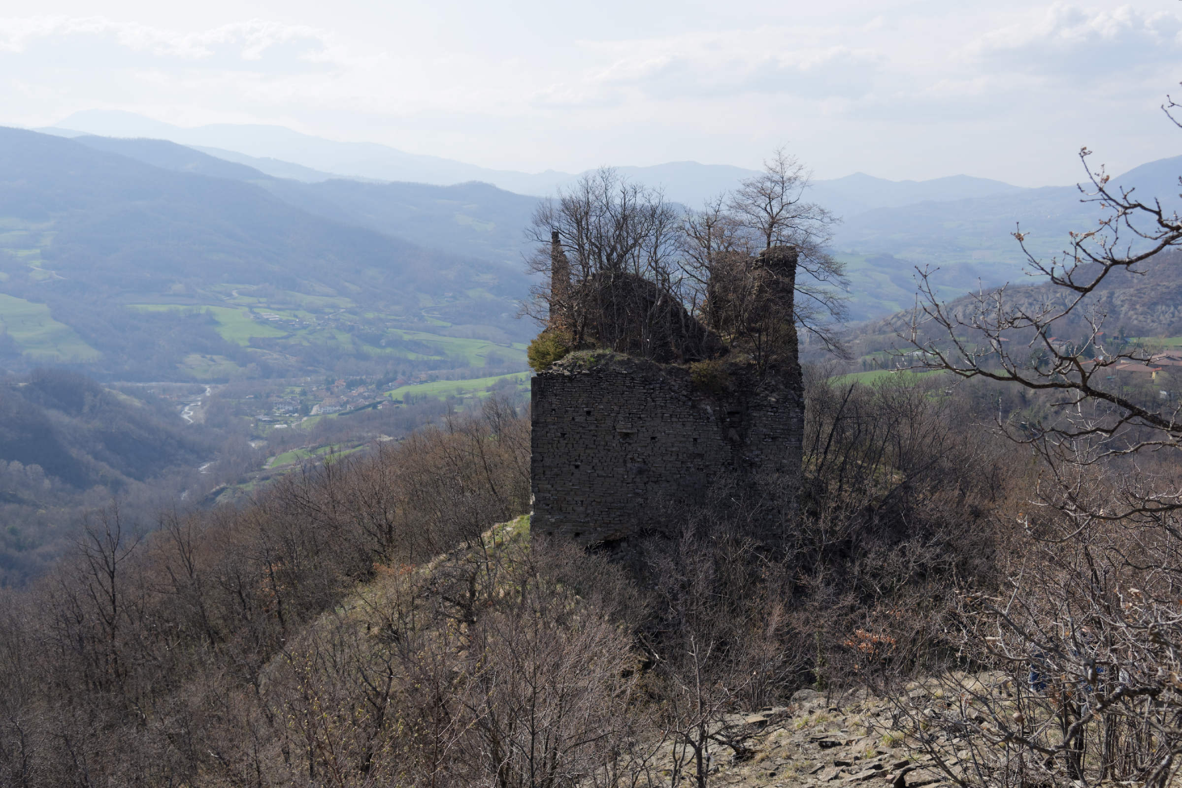 Castle of Gravago